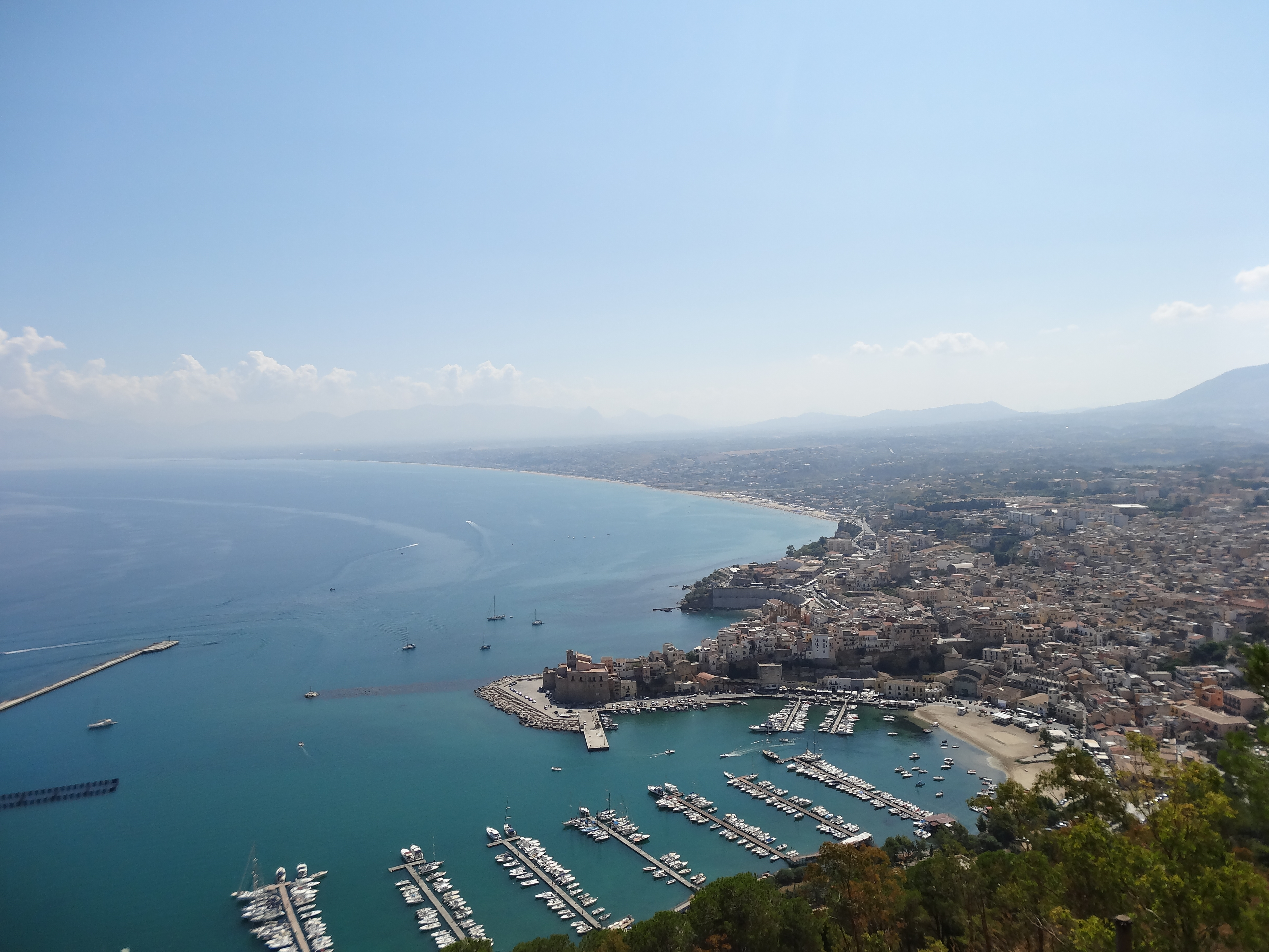 Castellammare del Golfo 2013